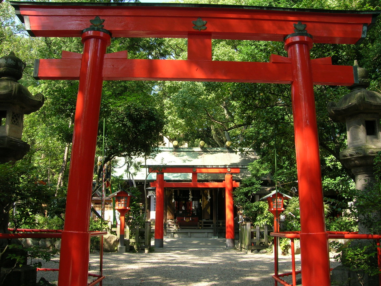 Gokiso Hachimangu. Loc: Showa-ku, Nagoya city, Aichi prefecture, Japan. 御器所八幡宮 拝殿。 撮影場所 愛知県名古屋市昭和区御器所・御器所八幡宮